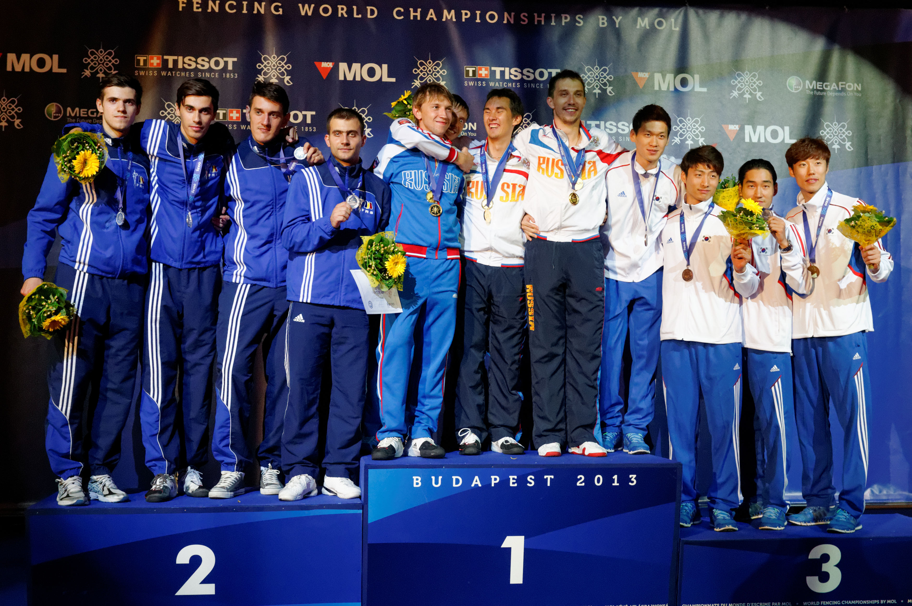 Podium of the men's sabre team event at the 2013 World Fencing Championships 2013 at Syma Hall in Budapest, 10 August 2013.